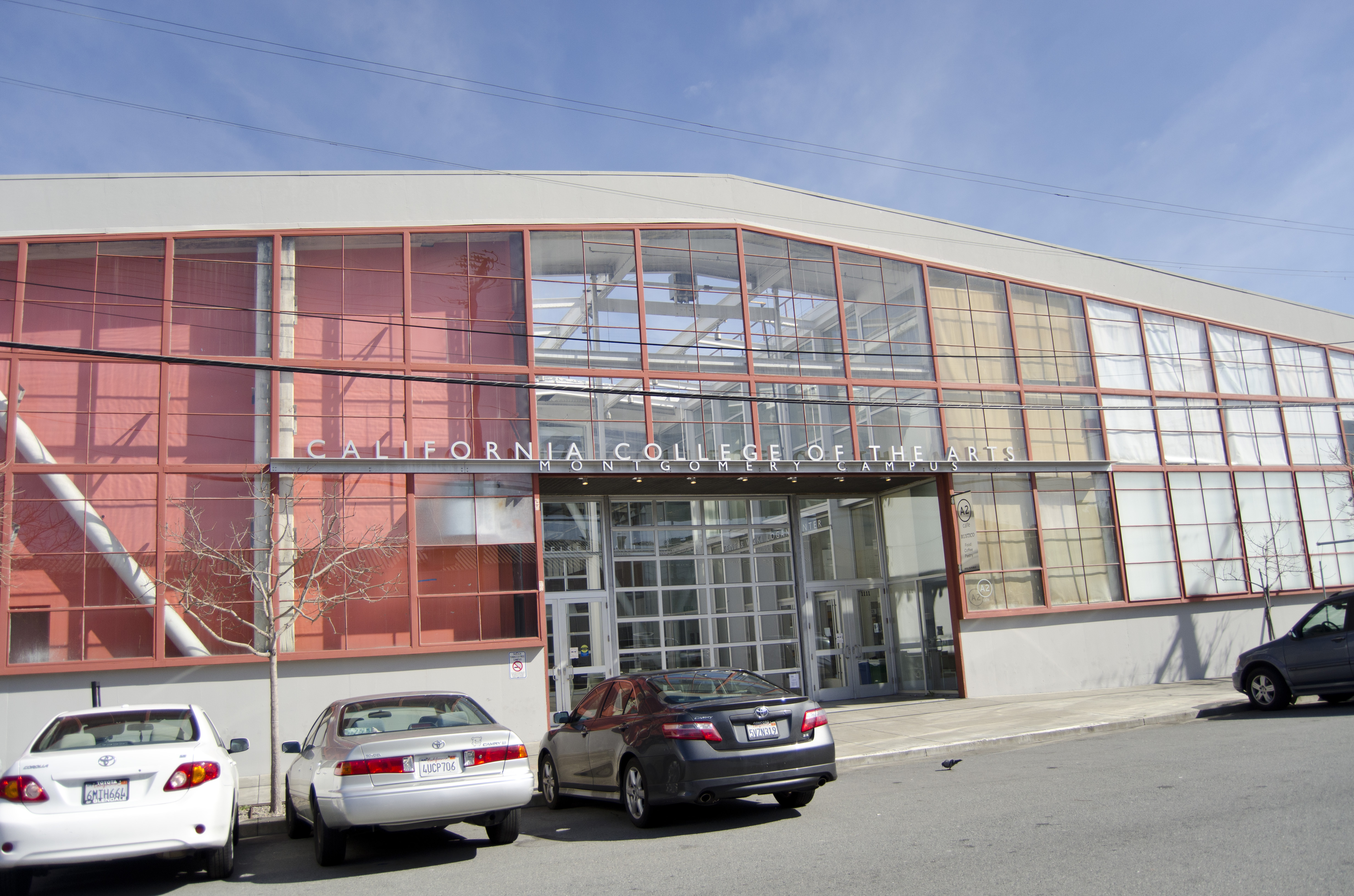 Montgomery Building, San Francisco campus, California College of the Arts